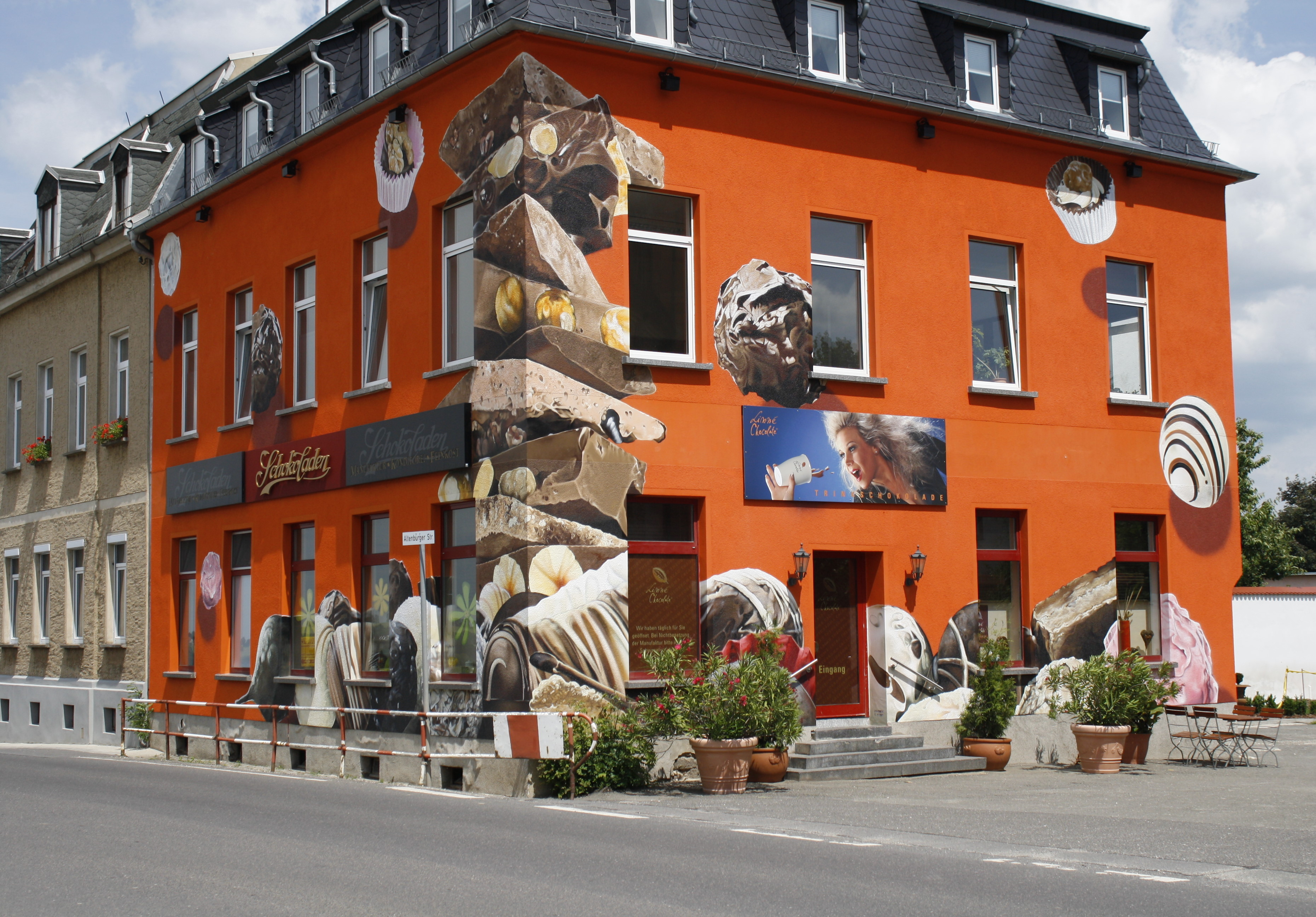 Facades Graffiti - Chocolate Shop - by TASSO